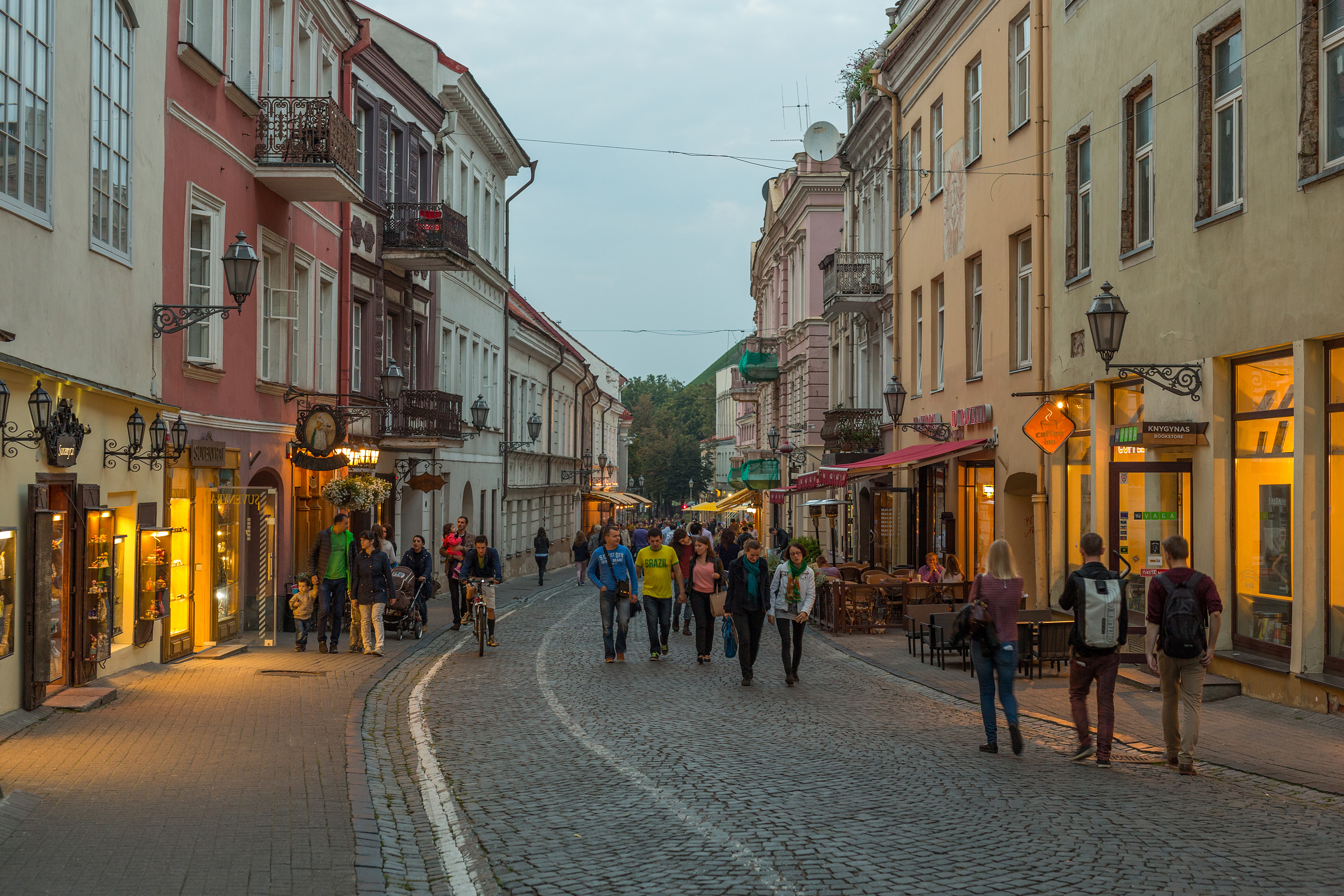 Looking north on Pilies Street at dusk in Vilnius, Lithuania.